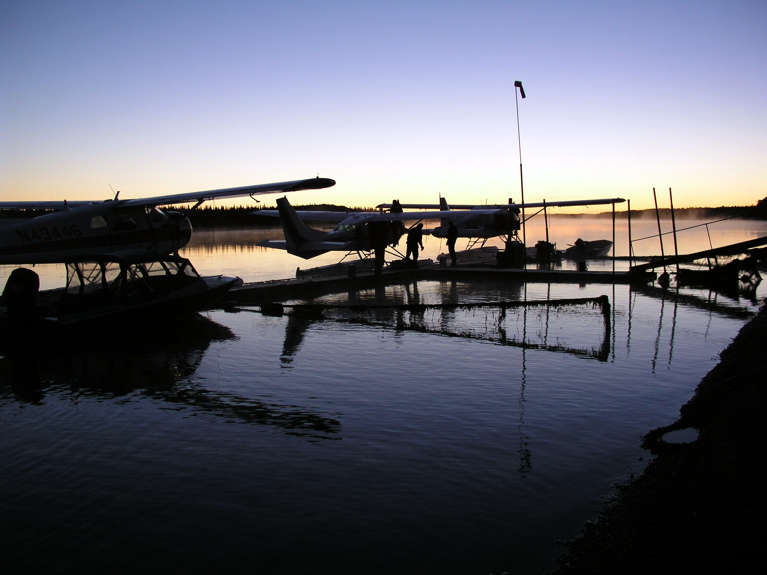 Floatplanes on Naknek Rivers in King Salmon, Alaska